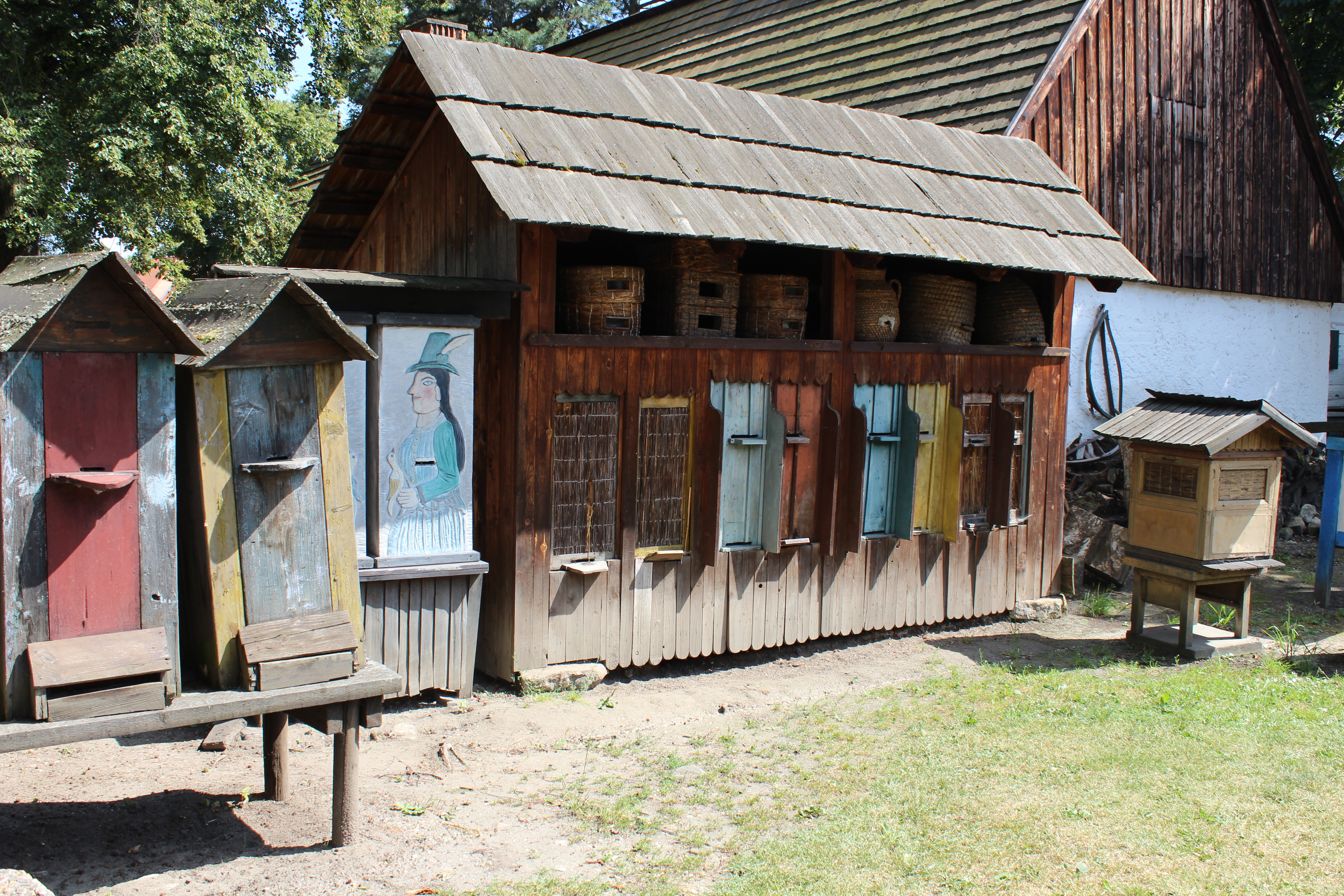 Outdoor Beekeepers